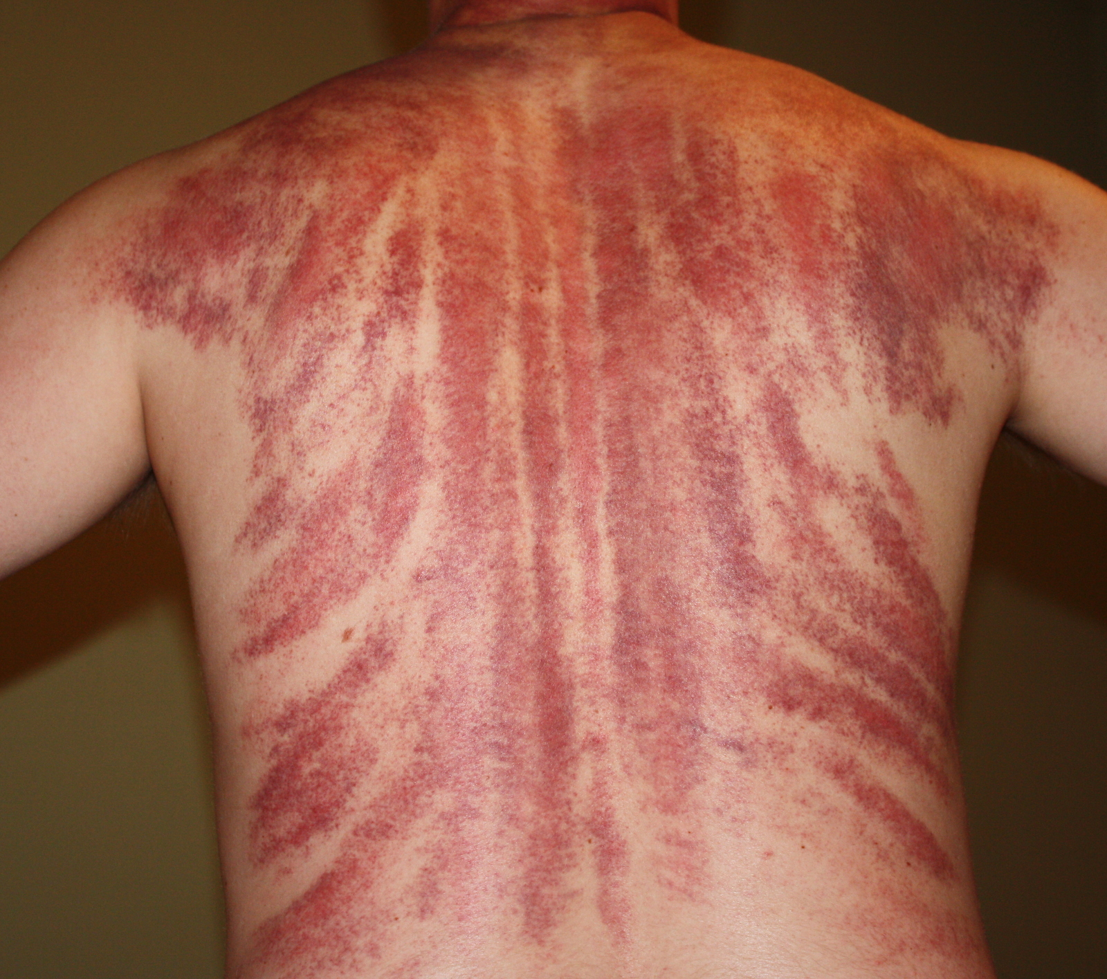 Apparently my Chi wasn't up to par.